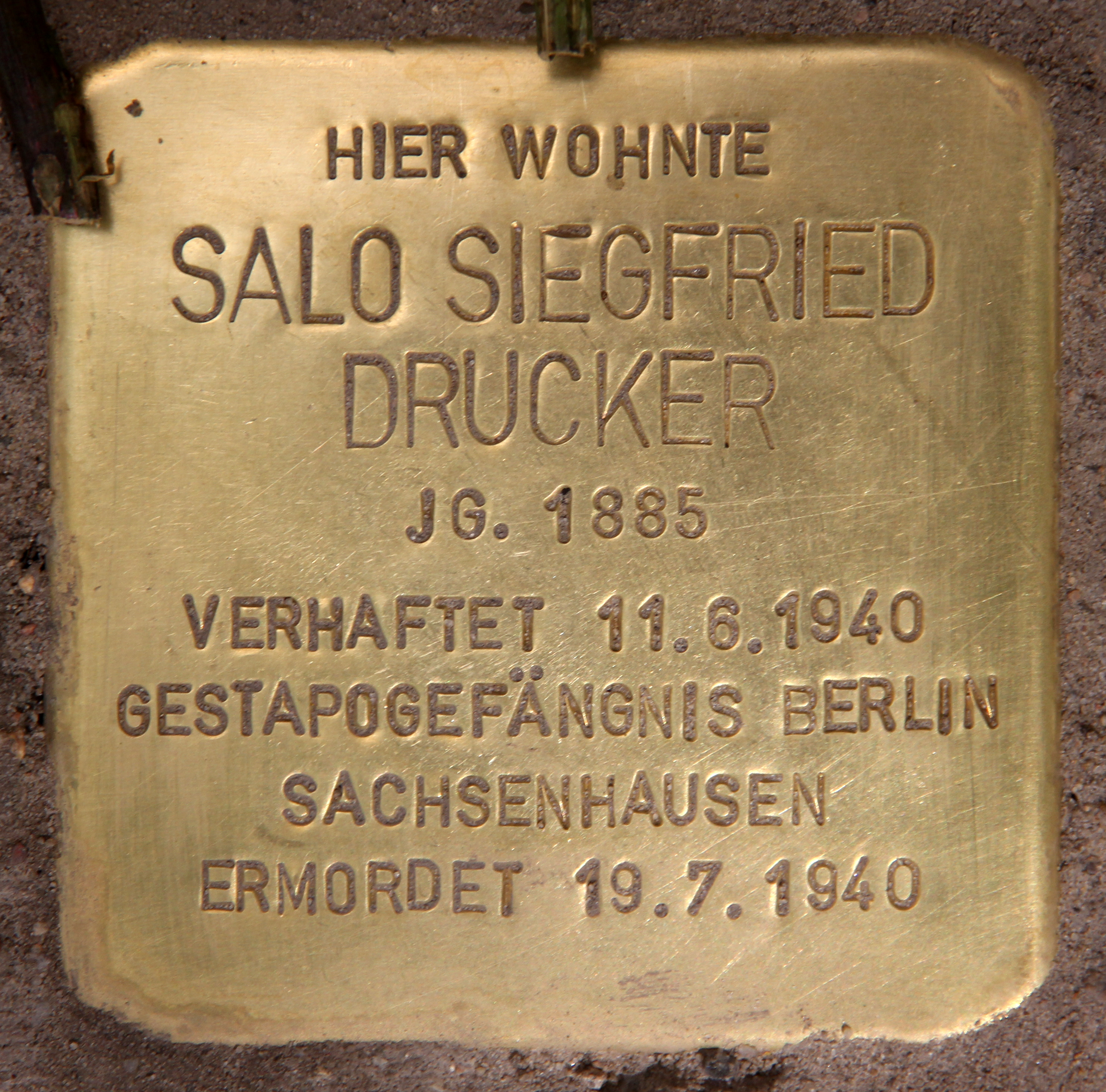 "Stolperstein" (stumbling block), Salo Siegfried Drucker, Fasanenstraße 59, Berlin-Wilmersdorf, Germany